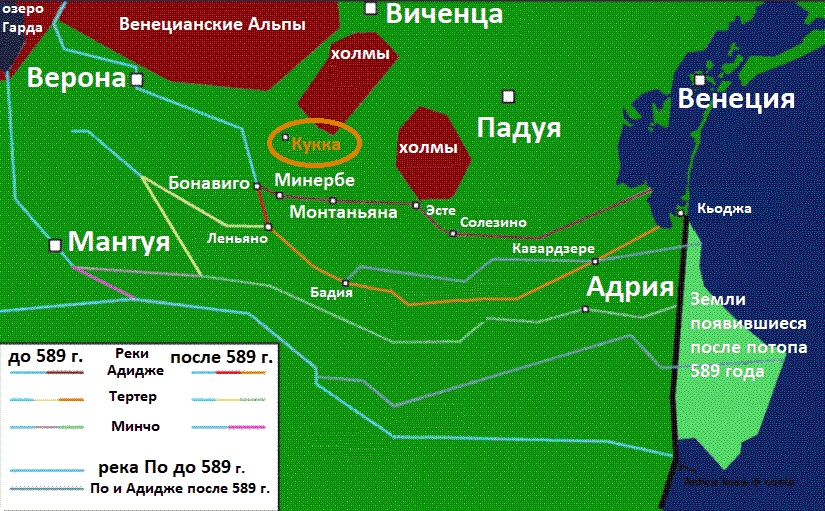 Flooding in 589 in Italy - Western Roman Empire. The consequence of the invasion of the Lombards. The location of the hydraulic breakthrough Rotta della Cucca (Breach at Cucca) is indicated. The city of Kucca is the modern city of Veronella. The breakthrough led to floods, breakthroughs of other dams and changes in river beds, provoking the "Domino Effect", which is why the port of Adria, which gave its name to the Adriatic Sea, was cut off from the sea for 22 kilometers inland. The invasion of the Lombards in the Western Roman Empire and the ruin of agricultural land. The Lombards had the goal of isolating large Italian cities such as Padua. Repair and daily maintenance were stopped at dozens of dams and dams and irrigation canal locks.